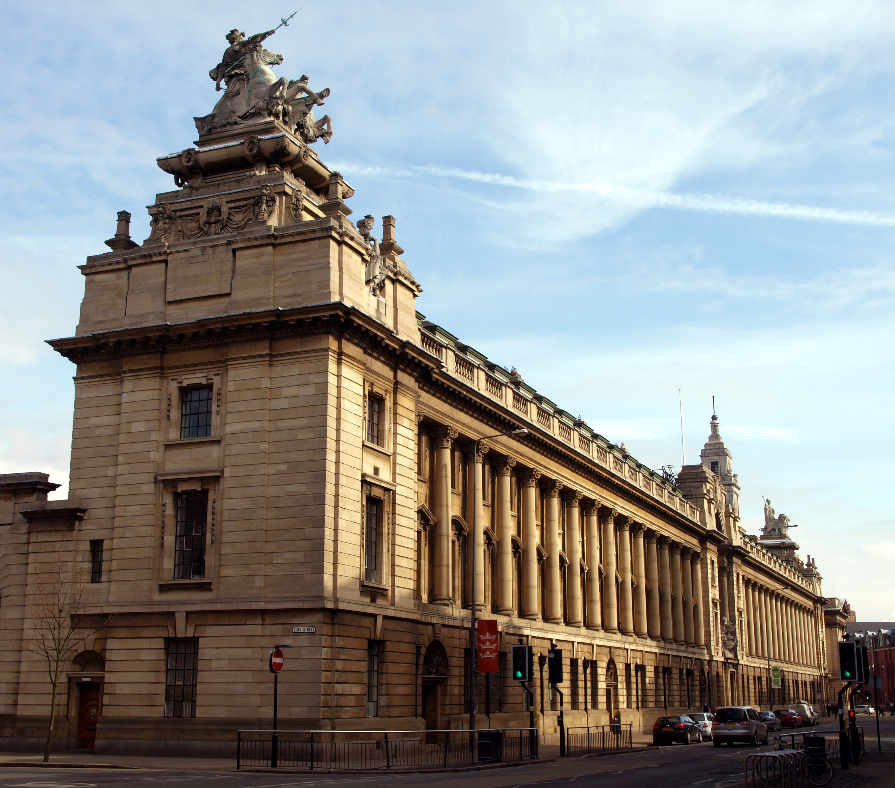 Hull's Guildhall